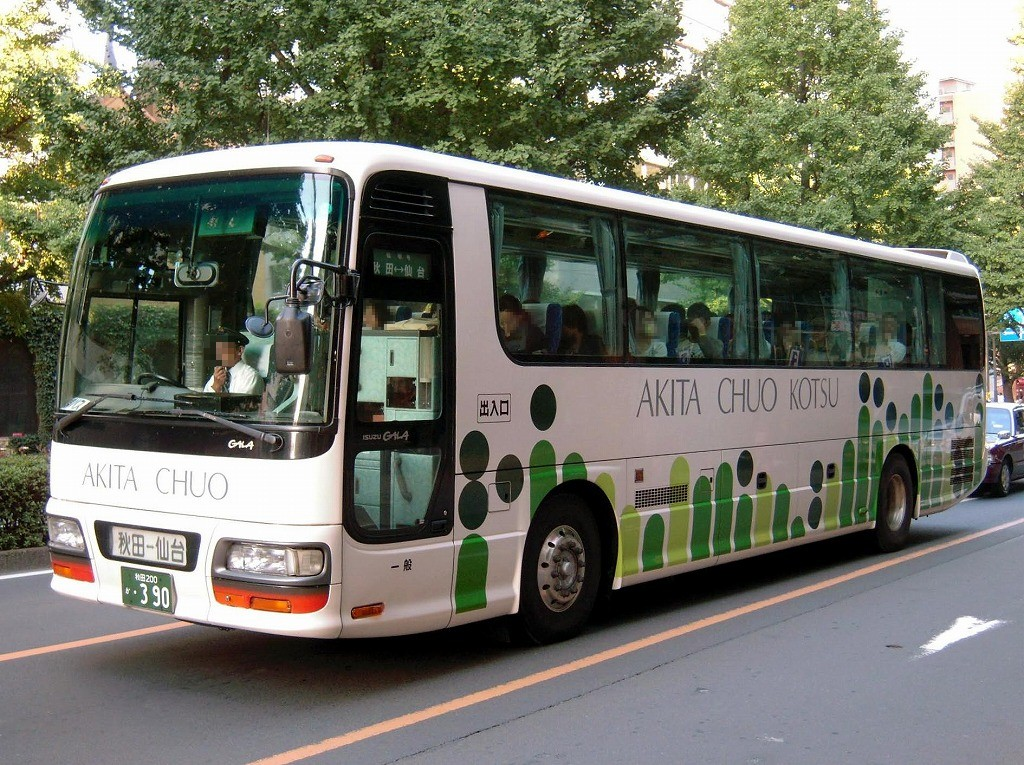 Akita Chuo Kotsu Isuzu GALA2000(KL-LV774R2)Highwaybus "Sen-Shu" (Sendai-Akita)